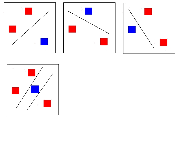 vc shuttering example